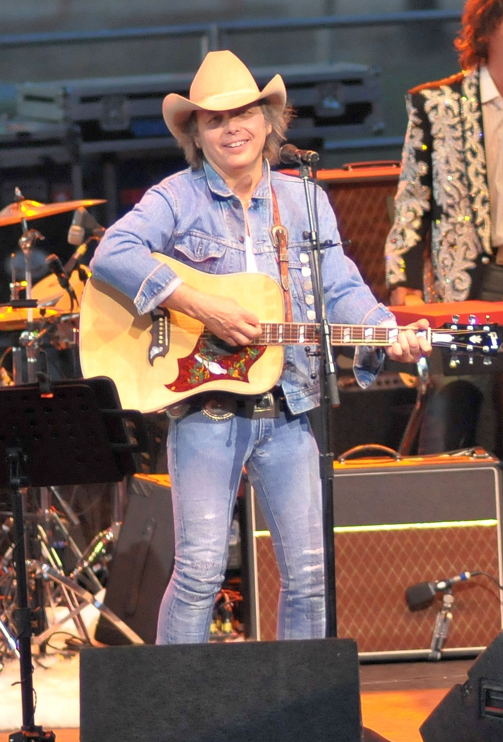 Dwight Yoakam in 2008